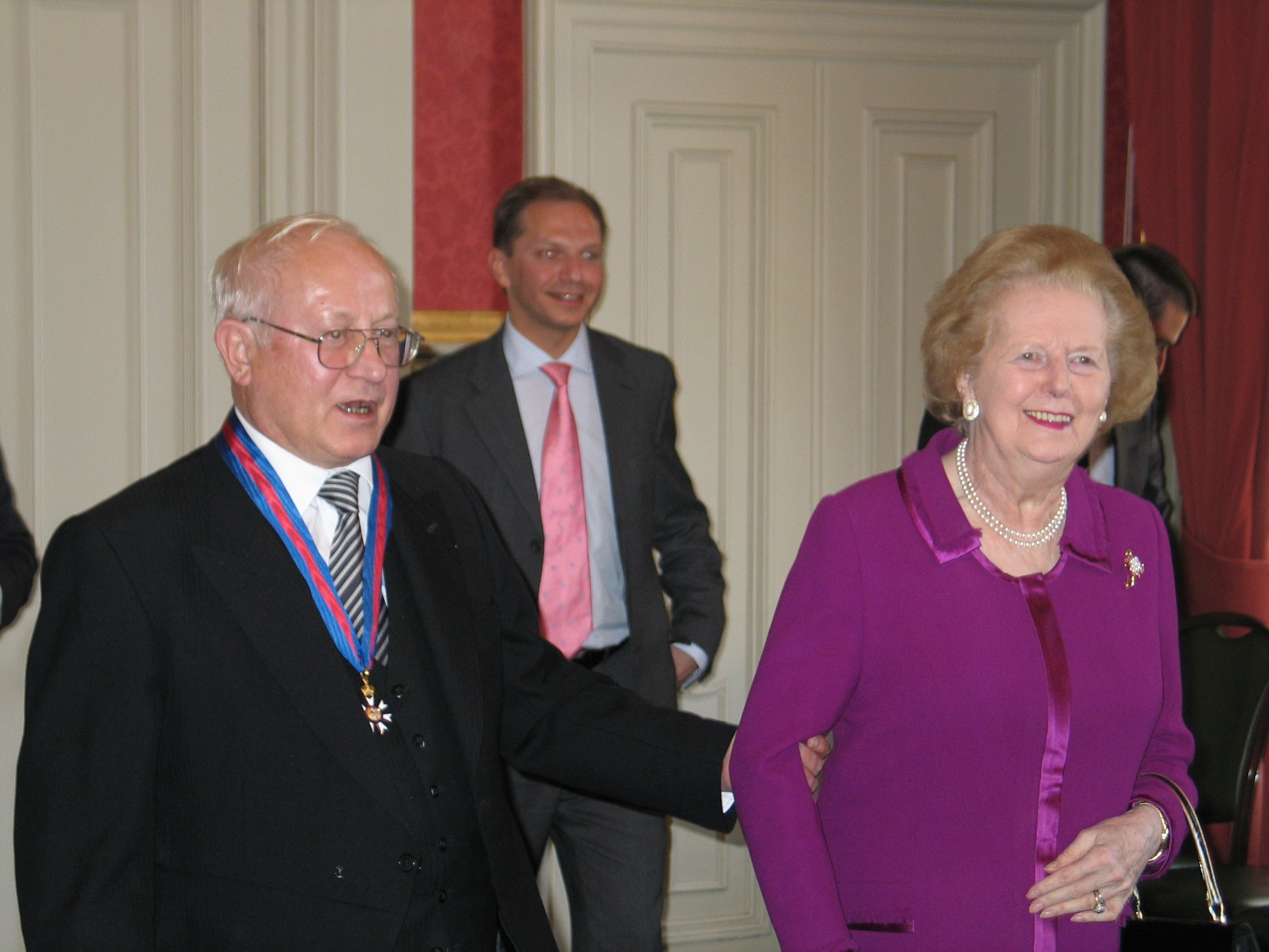 Oleg Gordievsky is congratulated by Baroness Thatcher following his investiture by the Queen on 18th October 2007.